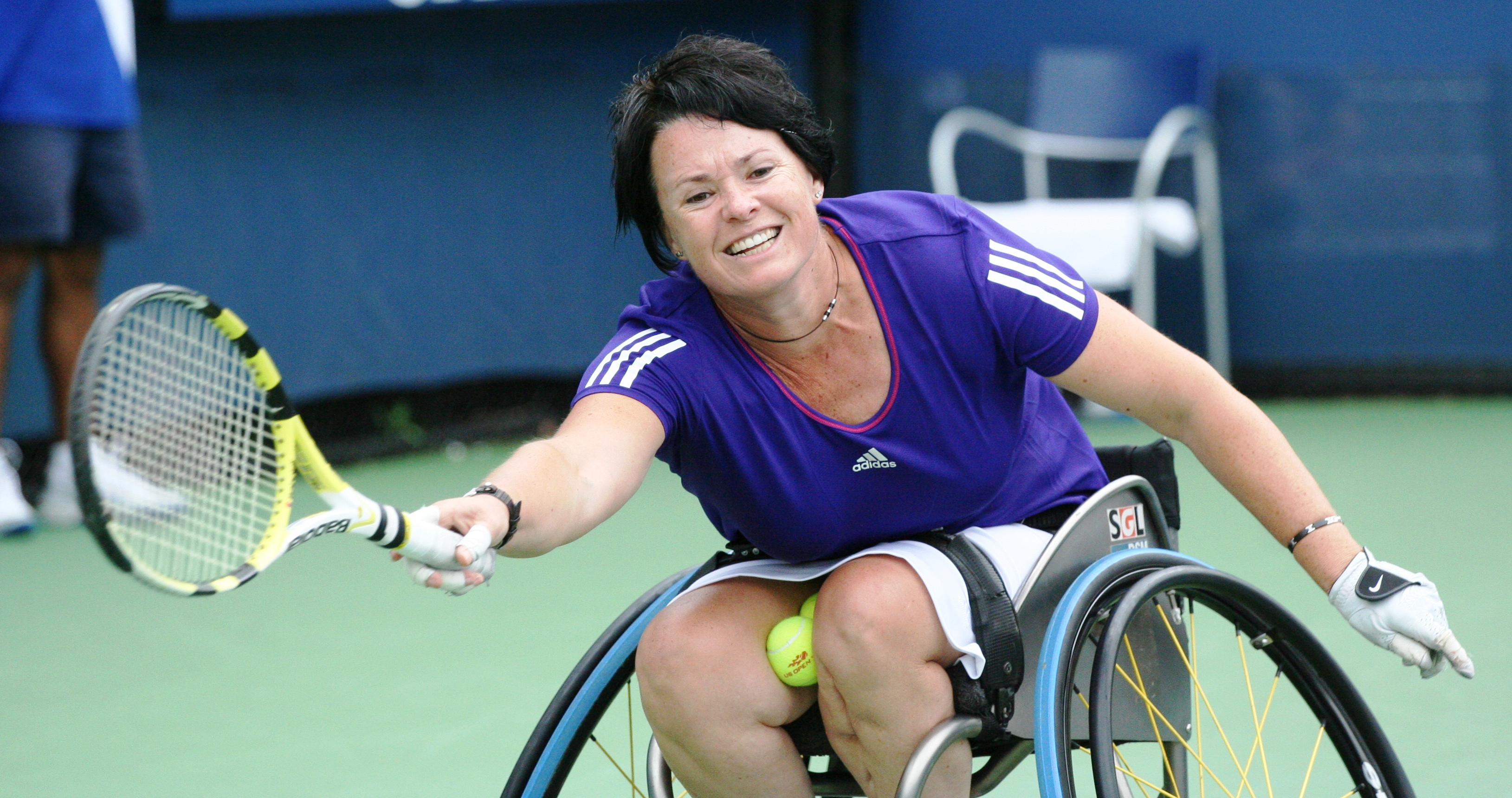 U.S. Open Wheelchair Thursday, Sept. 9, 2010